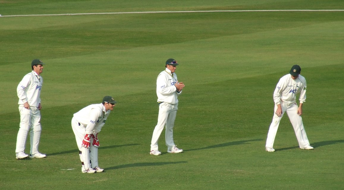 A wicket-keeper and slips cordon playing for Nottinghamshire in a County Championship match against Leicestershire at Trent Bridge. Chris Read is the wicket-keeper and the slips are (from left to right) Jason Gallian, David Hussey and Graeme Swann.